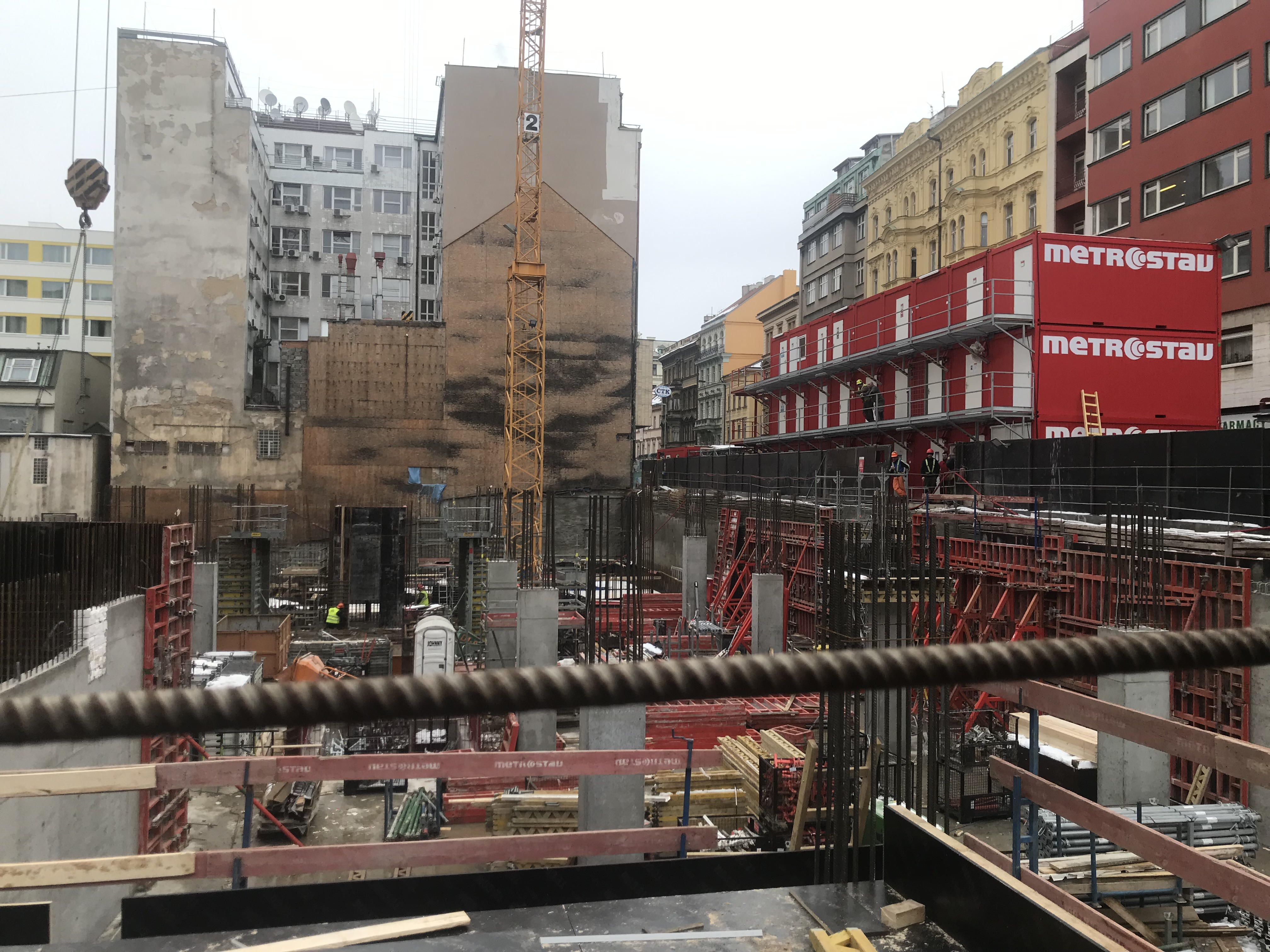 Květinový dům (Flower House) under construction, Wencelas Square, Prague